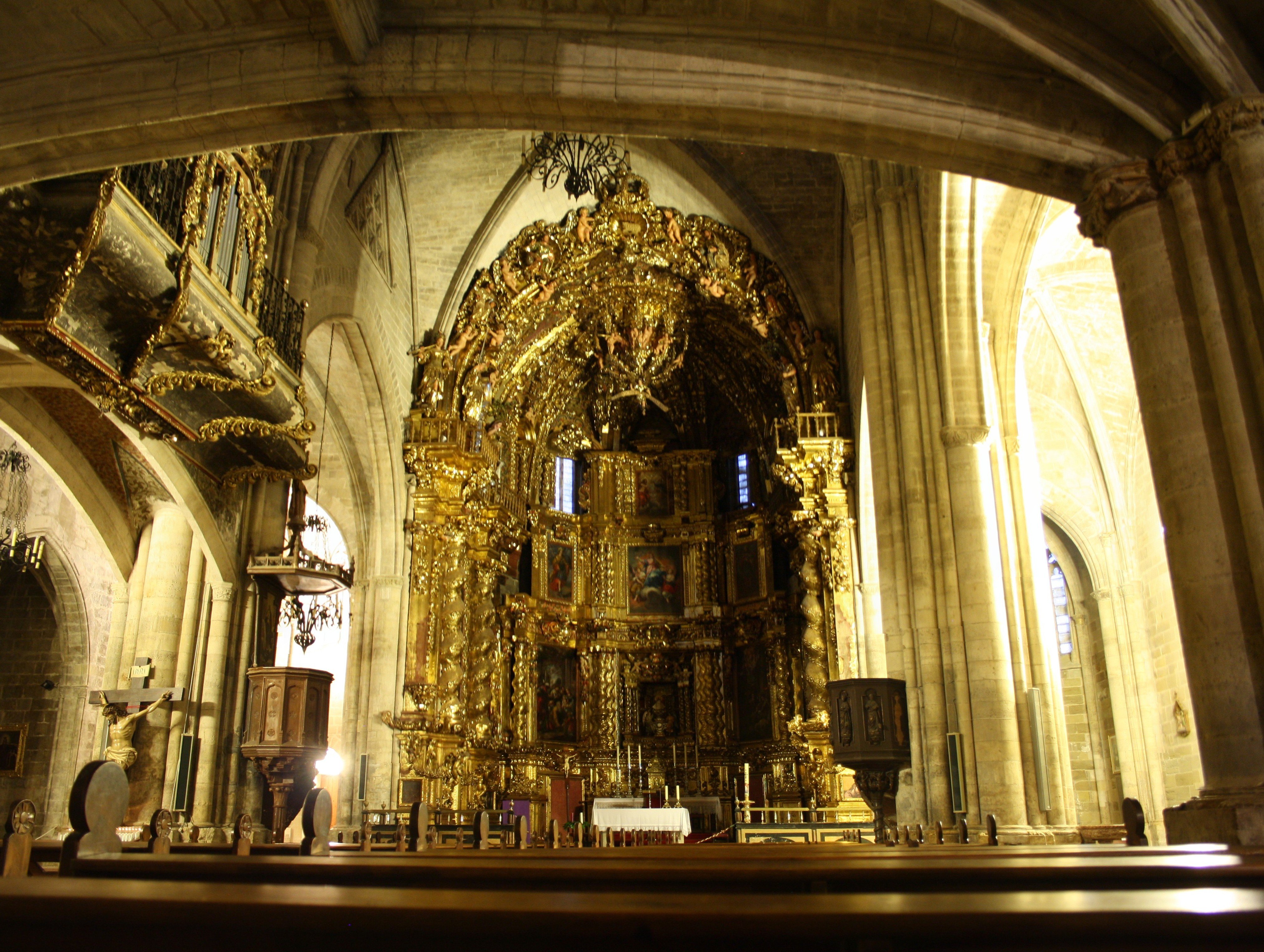 Interior of the Church of Santa María la Mayor, Morella, Spain